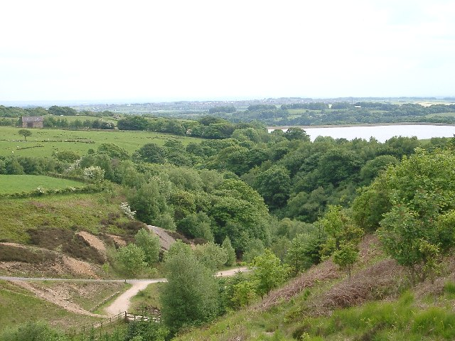 Lead Mines Clough. Taken from the War Memorial and looking towards Yarrow Reservoir